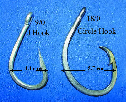 Illustrating the difference between a circle hook and a J Hook. The change in shape has led to a decrease in seaturtle bycatch by the WPR longline fleet